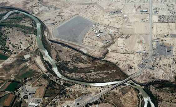 Aerial photograph of Shiprock, New Mexico uranium mill tailings pile and surrounding area, 2002. The view is looking toward the south and shows the San Juan River in the foreground, the covered Shiprock tailings pile in the left center and the Navajo community of Shiprock in the right hand portion of the image.